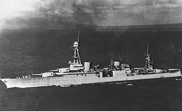 The U.S. Navy heavy cruiser USS Houston (CA-30) underway before the Second World War.